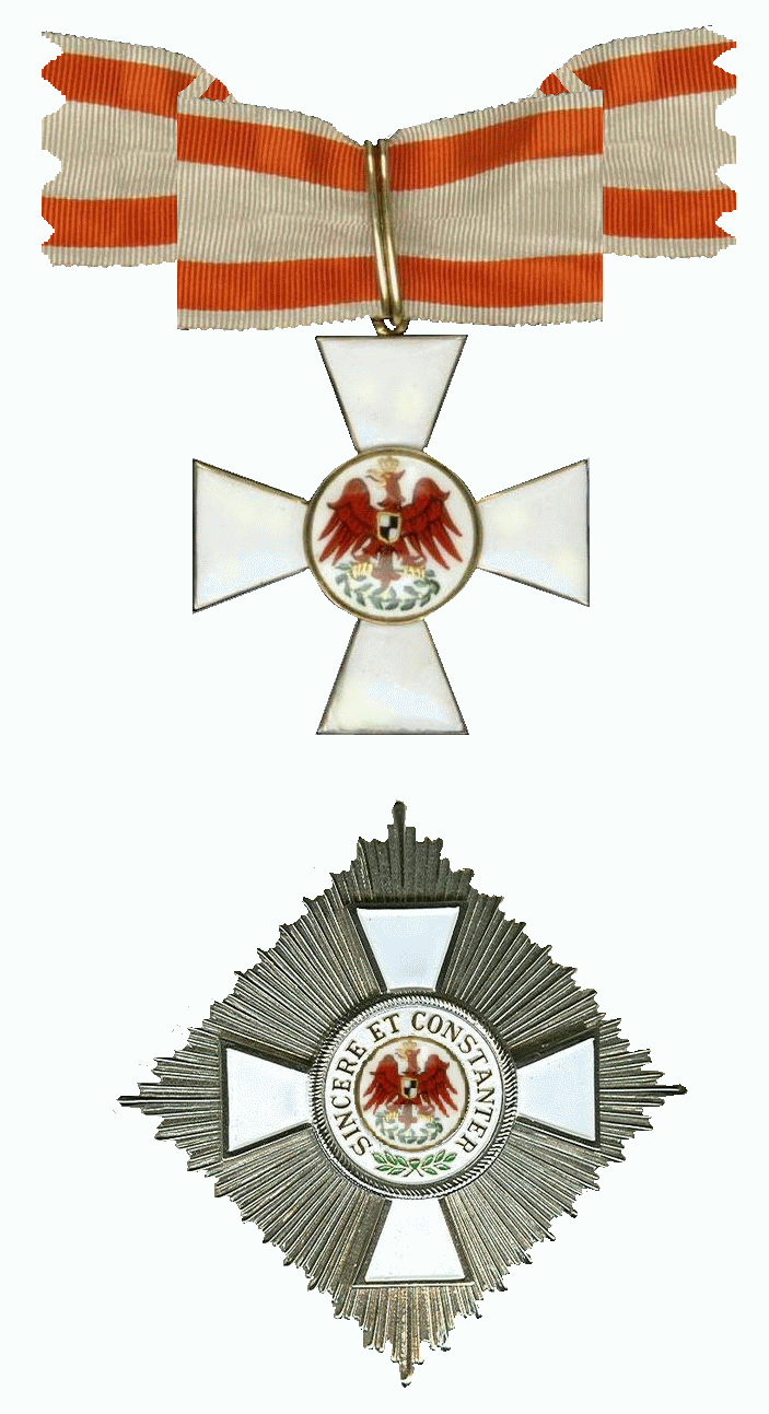 Order of the Red Eagle IInd. Class Prussia